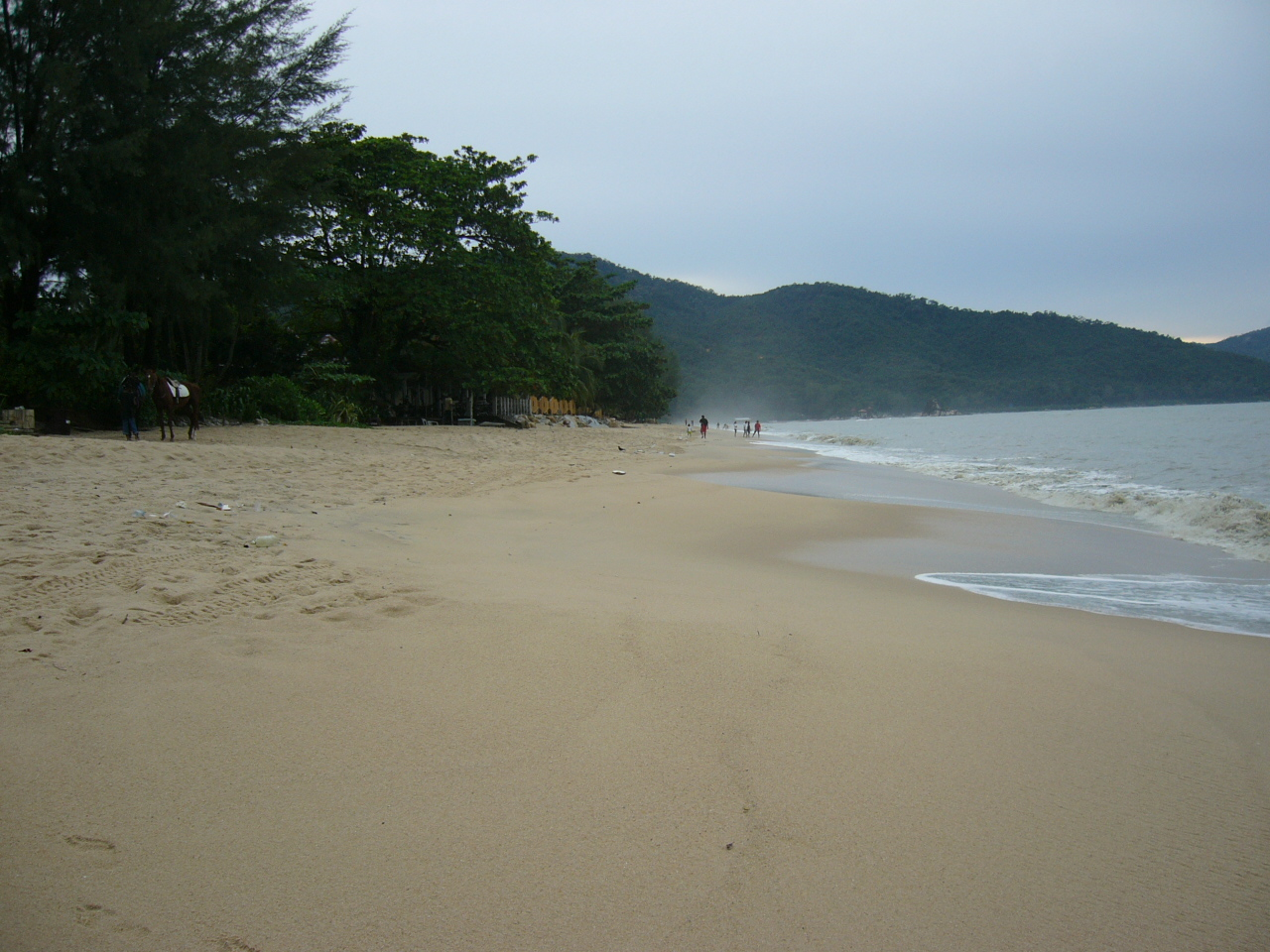 Author Shahnoor Habib